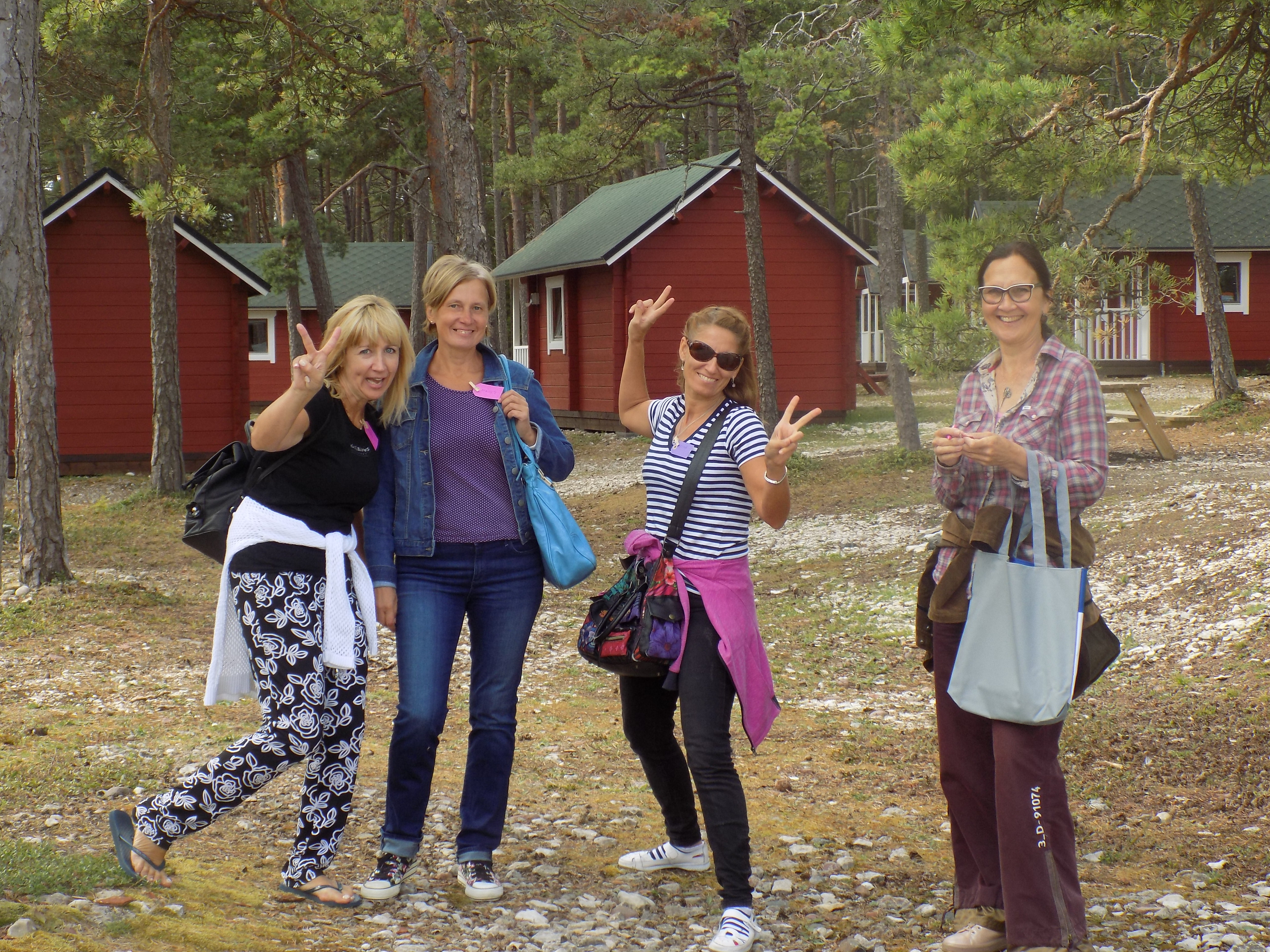 EESi suvekool